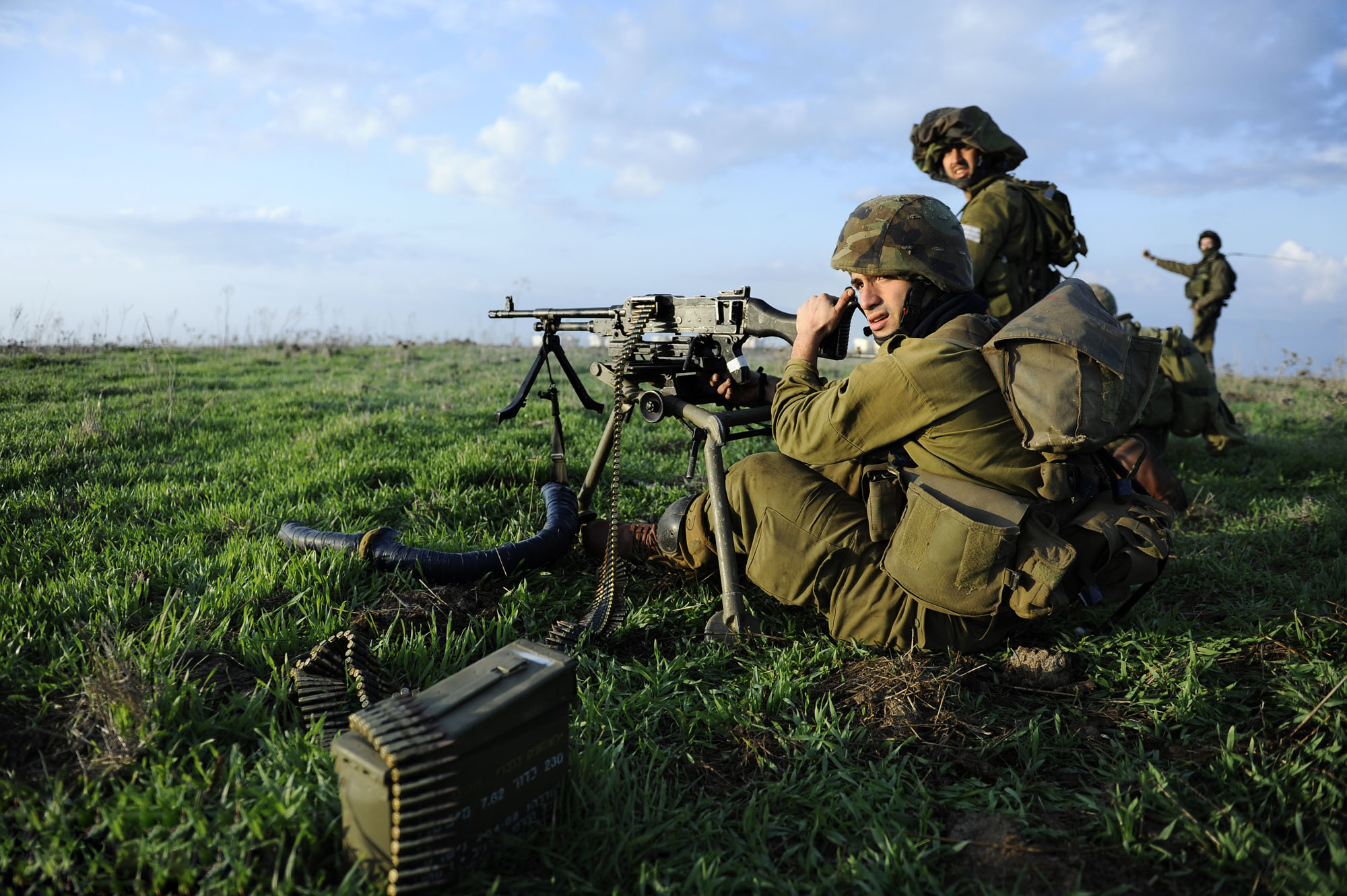 The "Herev" (Sword) Battalion, comprised of Druze, Jewish and Christian soldiers, are an elite unit specially trained in the Northern Command. The Israel Defense Forces Facebook The Israel Defense Forces blog The Israel Defense Forces website Follow us on Twitter